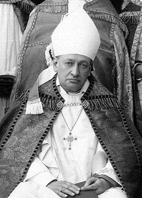 The consecration of Reginald Heber Weller as an Anglican bishop at the Cathedral of St. Paul the Apostle in the Protestant Episcopal Diocese of Fond du Lac. The Rt. Rev. Isaac Lea Nicholson, Episcopal Bishop of Milwaukee